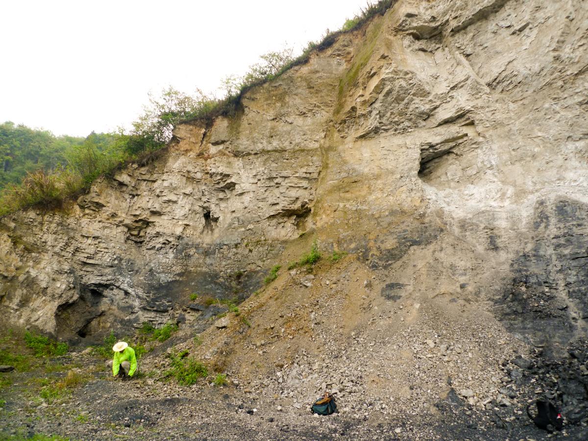 A quarry along the Provincial Road 228 near Sancha exposes the transition between the uppermost Doushantuo Formation (black, organic-rich shales known as 'algal coal') and the lowermost Dengying Formation made of bright, brittle dolostones